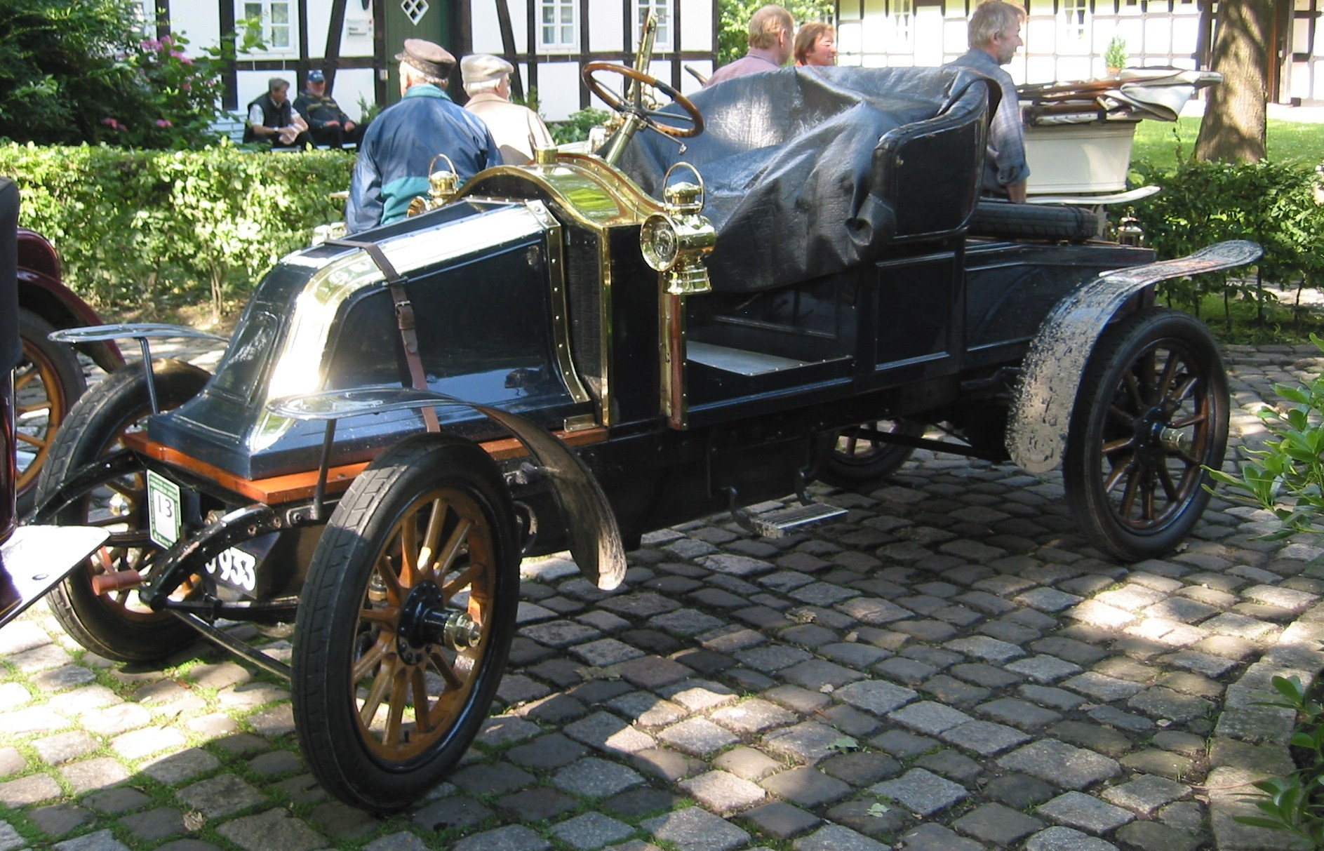 Renault Type X Phaeton 1905